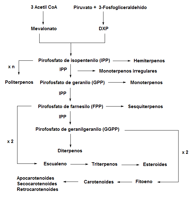 Terpenes map